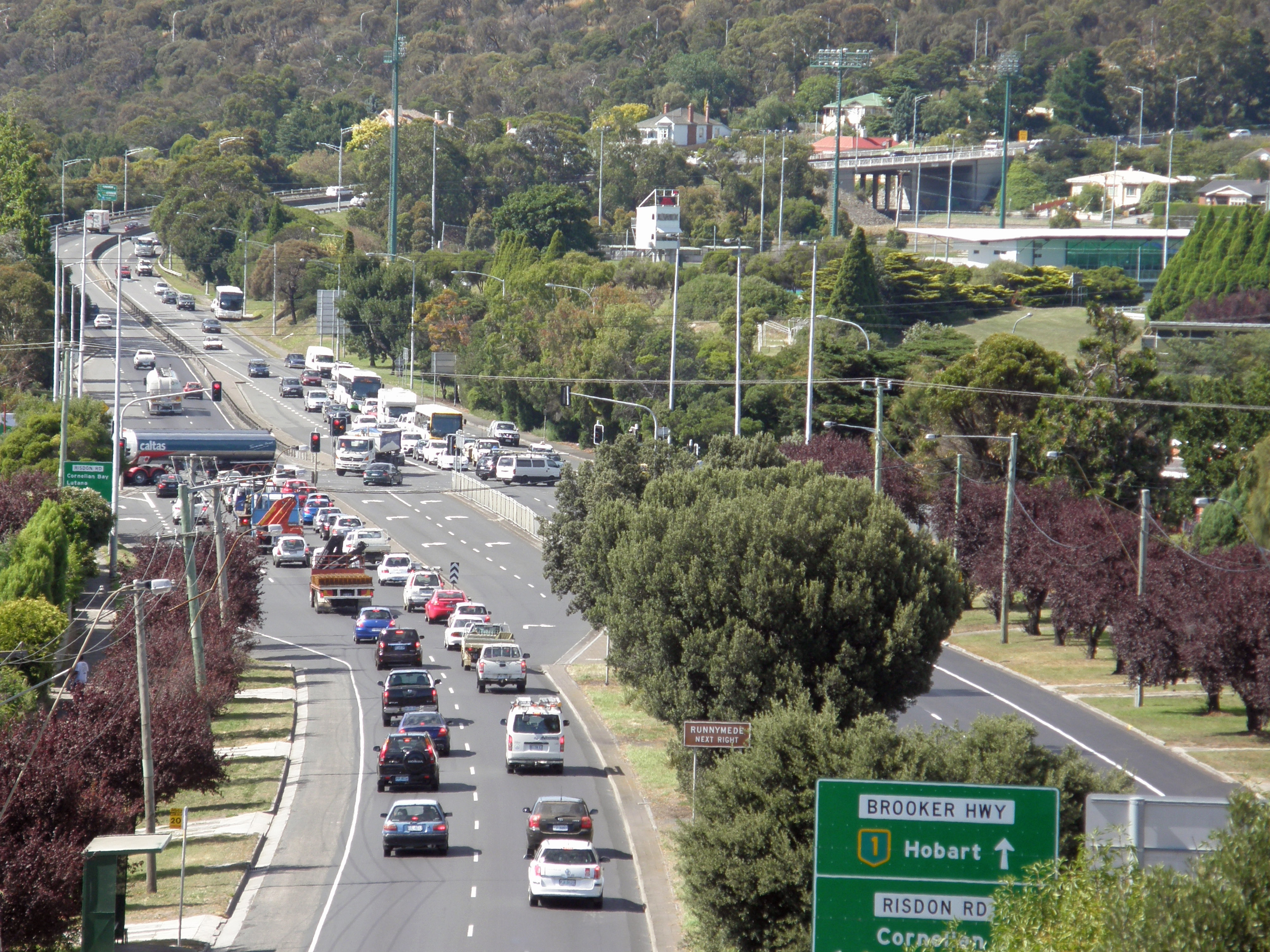 Facing South: Brooker Highway at-grade intersection with Risdon Road.